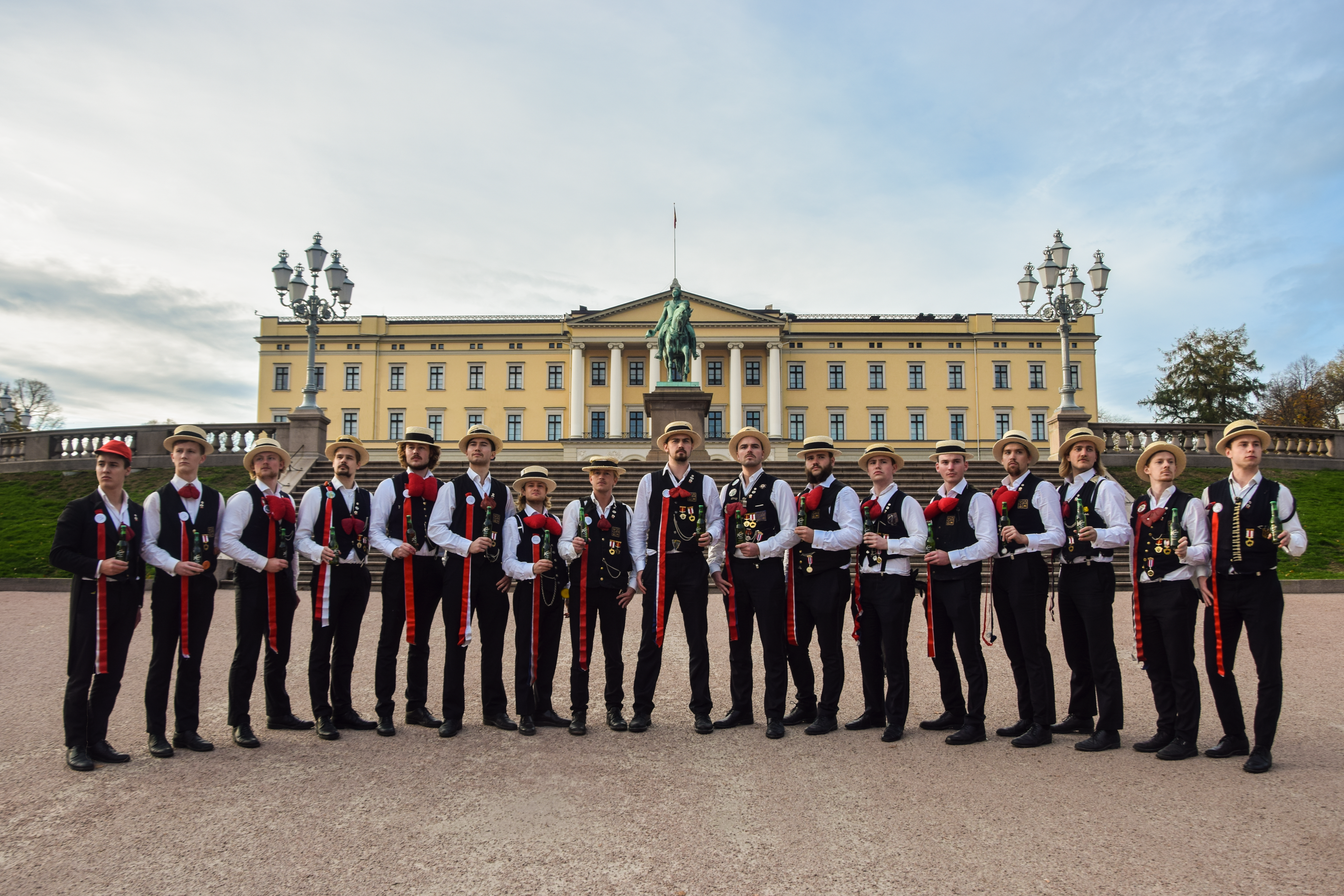 Svæveru'